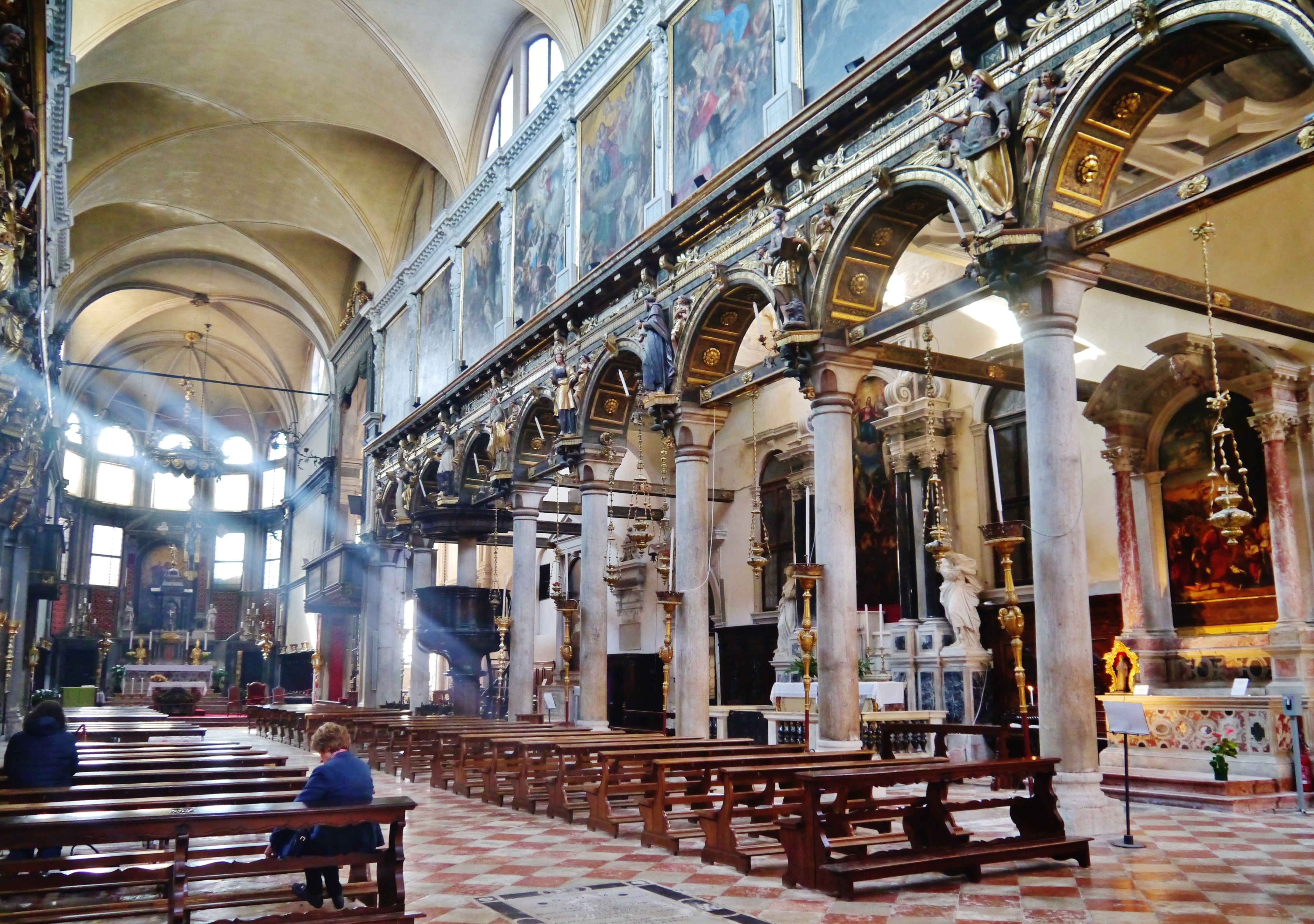 Nave of the Church of St. Mary of Carmini, Venice, Metropolitan City of Venice, Region of Veneto, Italy